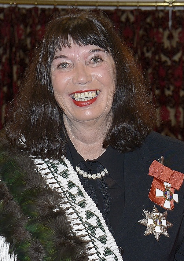 Catherine Healy, after her investiture as DNZM, for services to rights of sex workers, on 24 September 2018